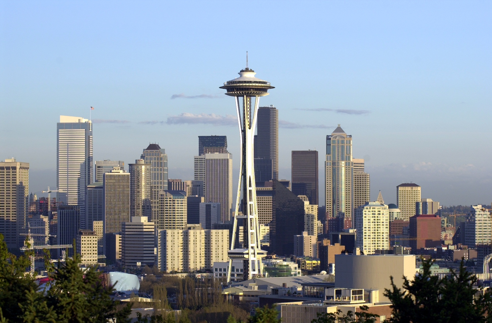 Seattle skyline. Despite the title of the Flickr image, this is from Kerry Park, not Kinnear Park. Item 107574, Fleets and Facilities Department Imagebank Collection (Record Series 0207-01), Seattle Municipal Archives.